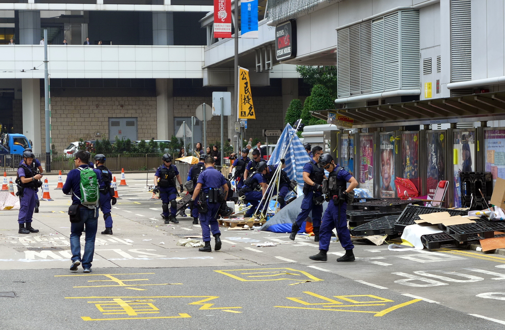 Special Unit Cleaning Tamar Stree